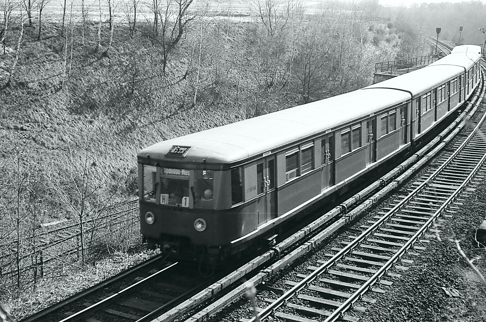 ET 166 between S-Bahn station Eichkamp (now: Messe-Süd)and S-Bahn station Heerstraße heading to S-Bahn station Spandau-West